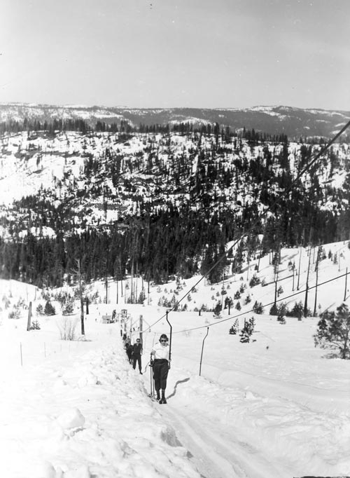 J-bar lift at the Stanislaus National Forest, Sierra Nevada, California